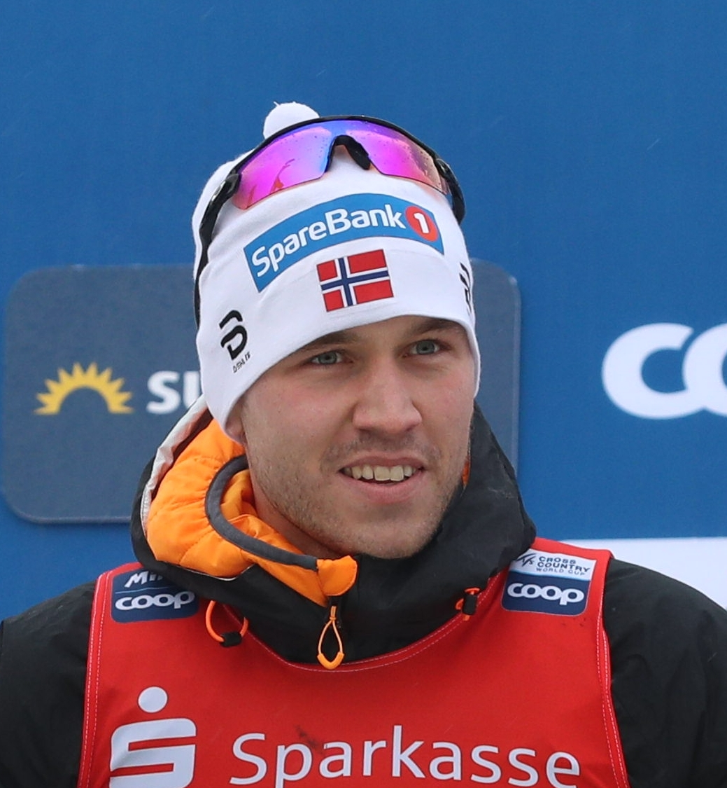 Teamsprint Victory Ceremonies at the FIS Cross-Country World Cup Dresden 2019 (6 x 1.6 km Team Sprint Free)